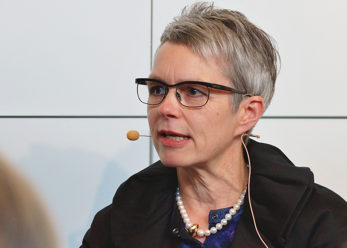 Dorthe Jørgensen - Danish philosopher, historian, dr.phil. and dr.theol at the Copenhagen Book Fair "BogForum 2014", Copenhagen, Denmark